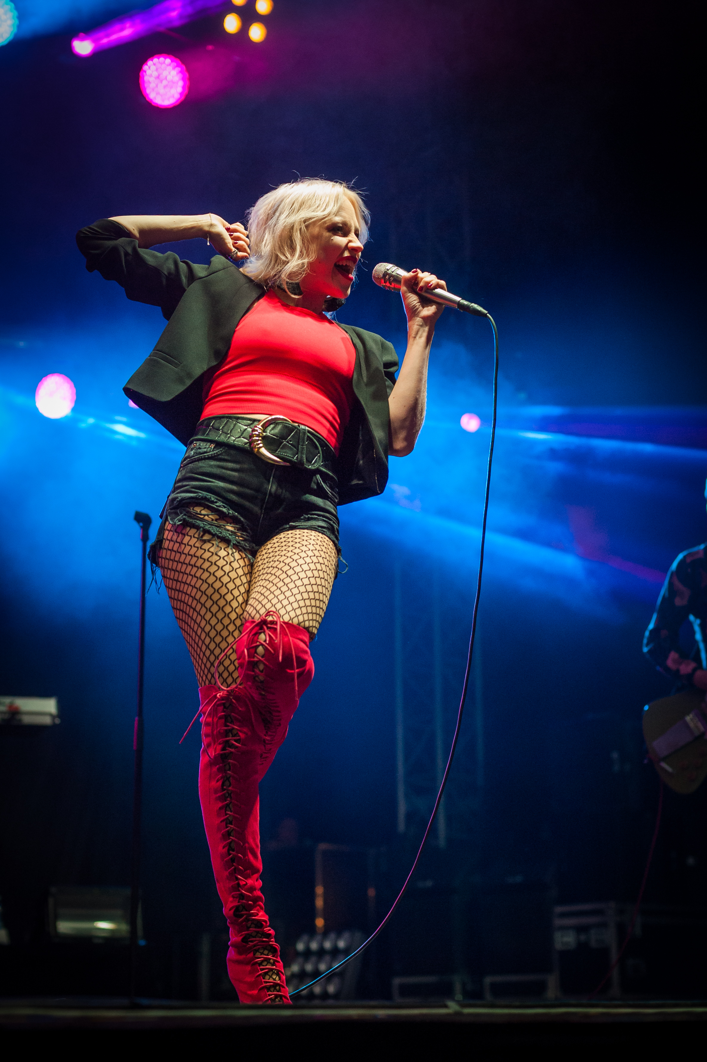 Finnish vocalist Chisu performing at the Ilosaarirock festival in Joensuu, Finland.